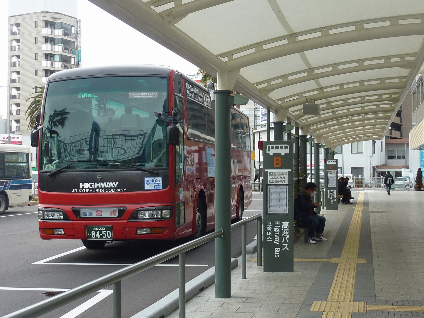 Miyazaki Station Bus Center in Miyazaki City, Japan